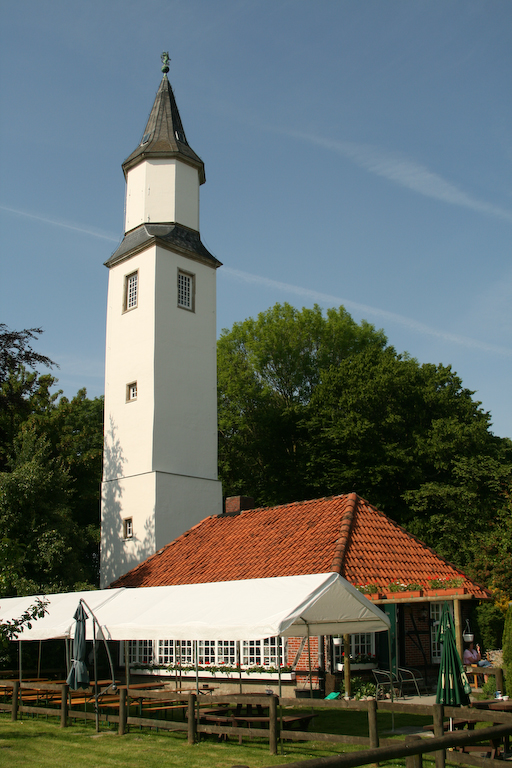 Marienturm in Sande (germany)